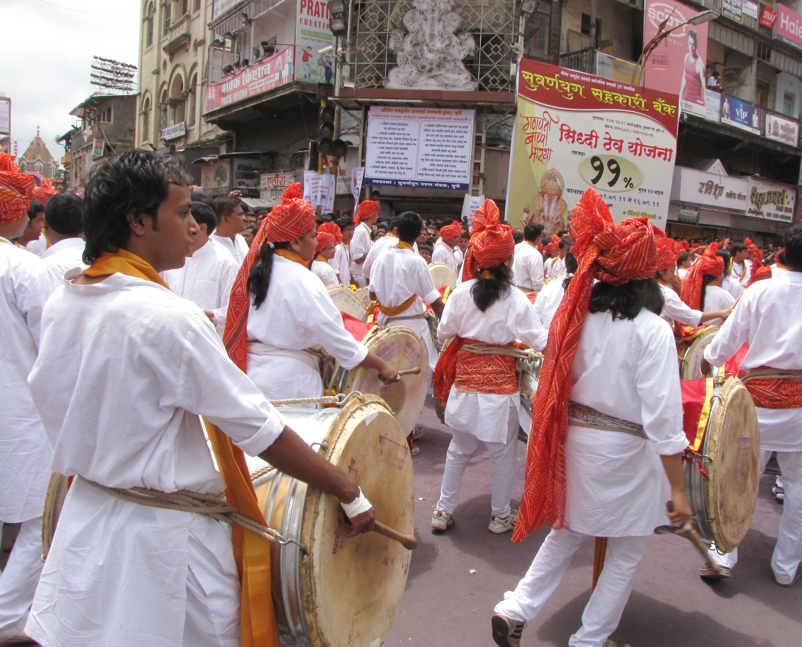 this photo was taken during the ganesh miravnuk in Pune in 2011